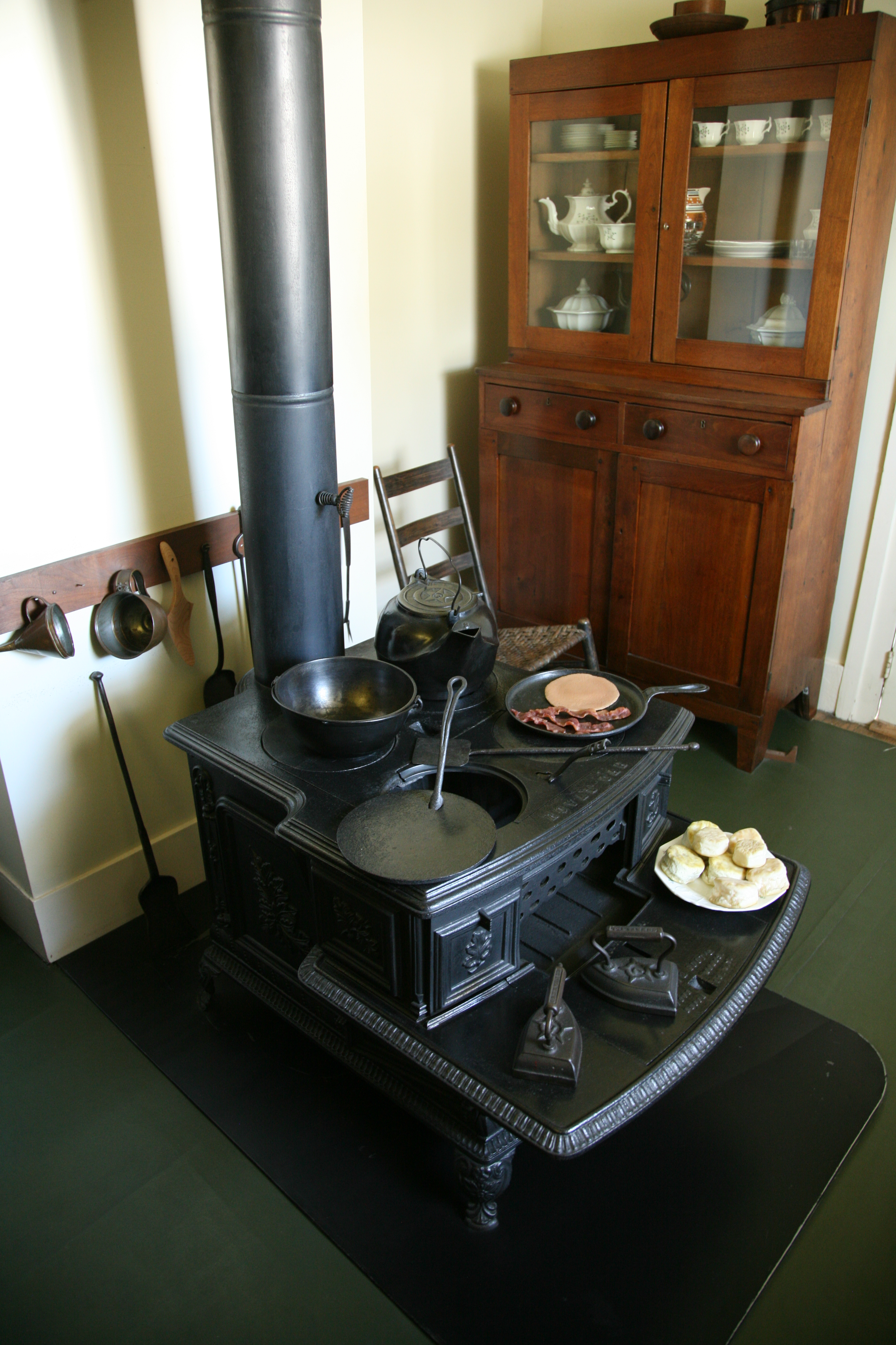 Lincoln family wood fired stove in the kitchon of the Springfield Lincoln home, Illinois